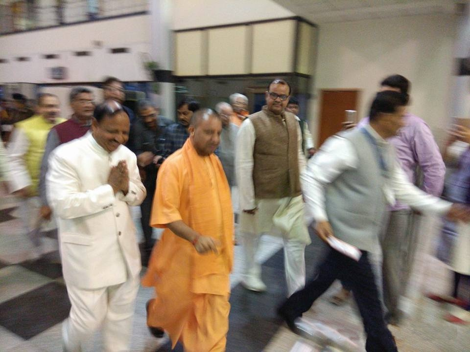 CM yogi and dr harit